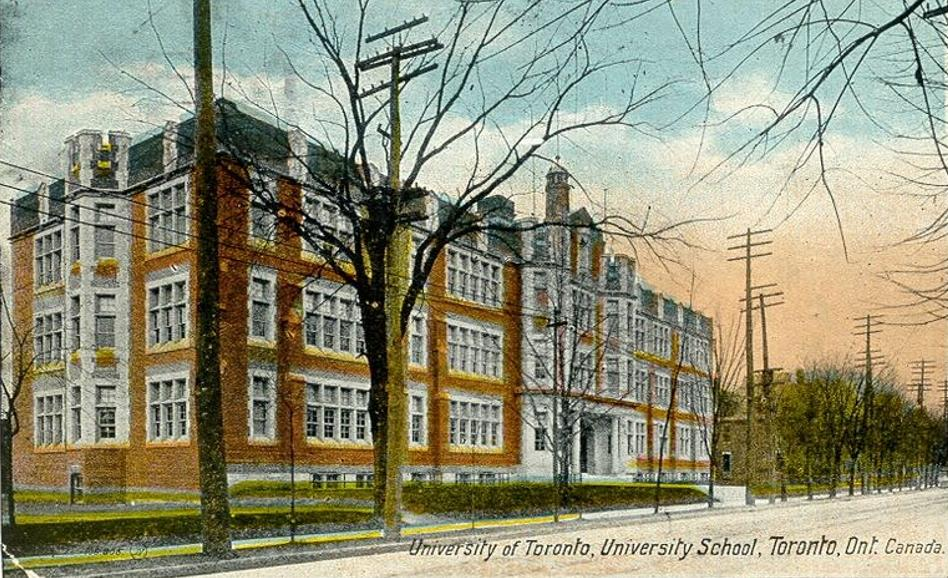 University of Toronto Schools, a secondary school on Bloor Street in Toronto, Canada.